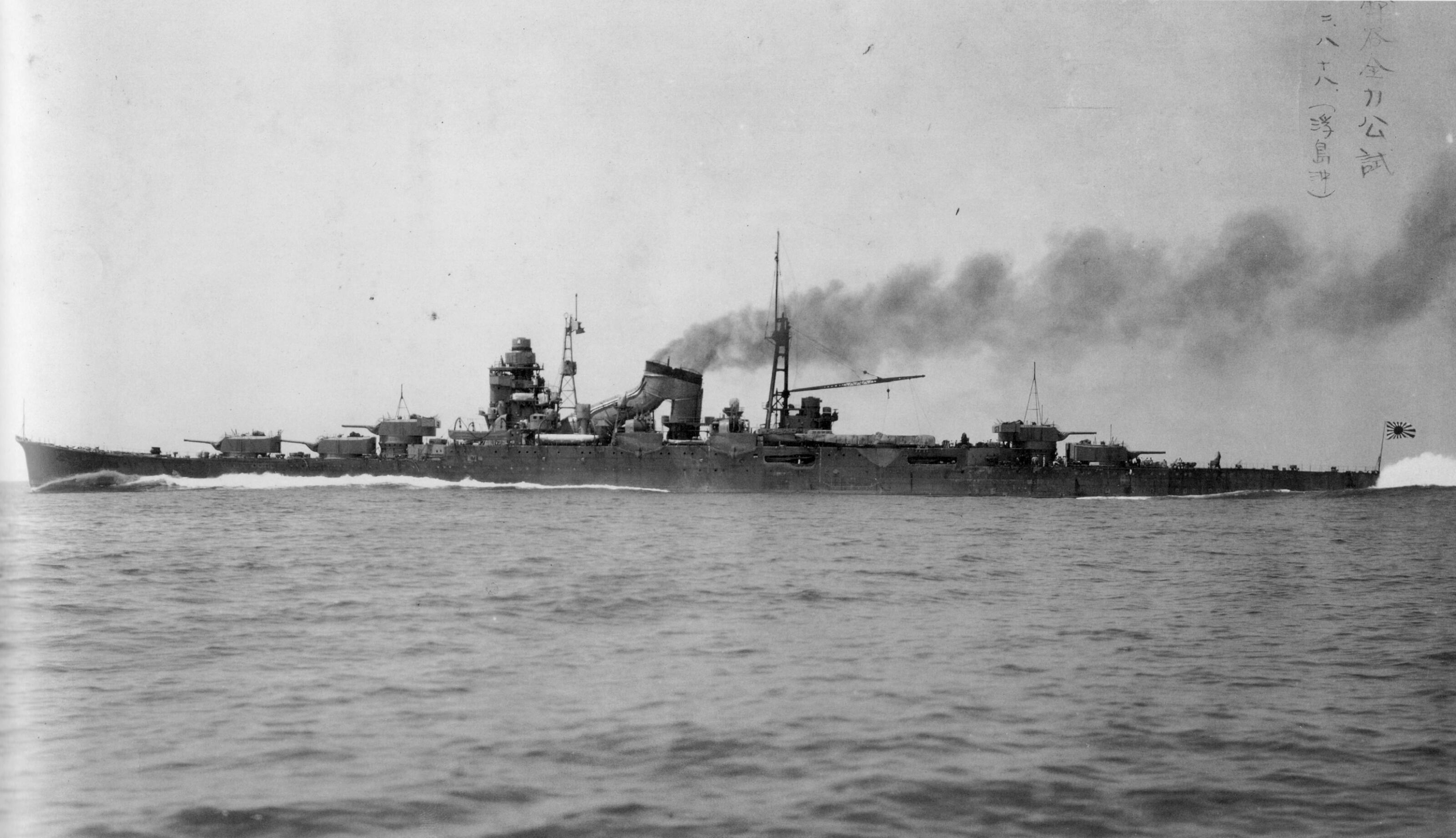 Japanese heavy cruiser Suzuya during trials of Tateyama after the Second Efficiency Improvement Works.